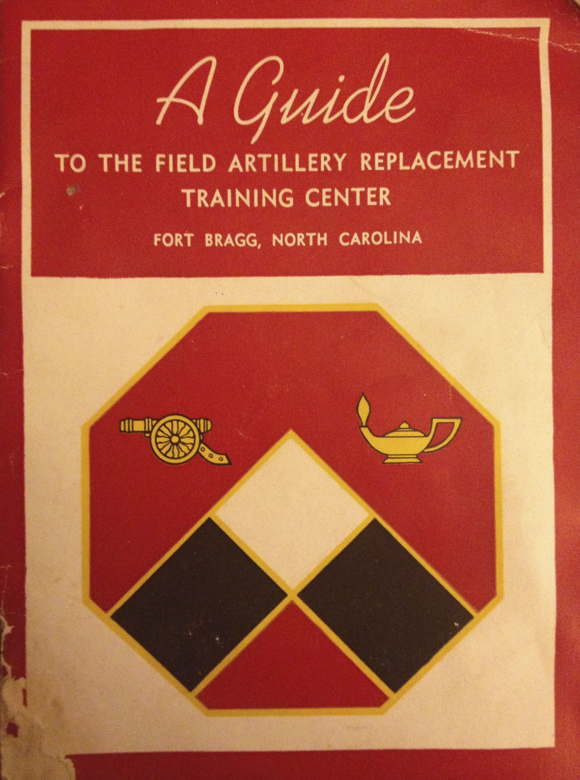 United States Government handbook written by famed travel writer Temple Fielding